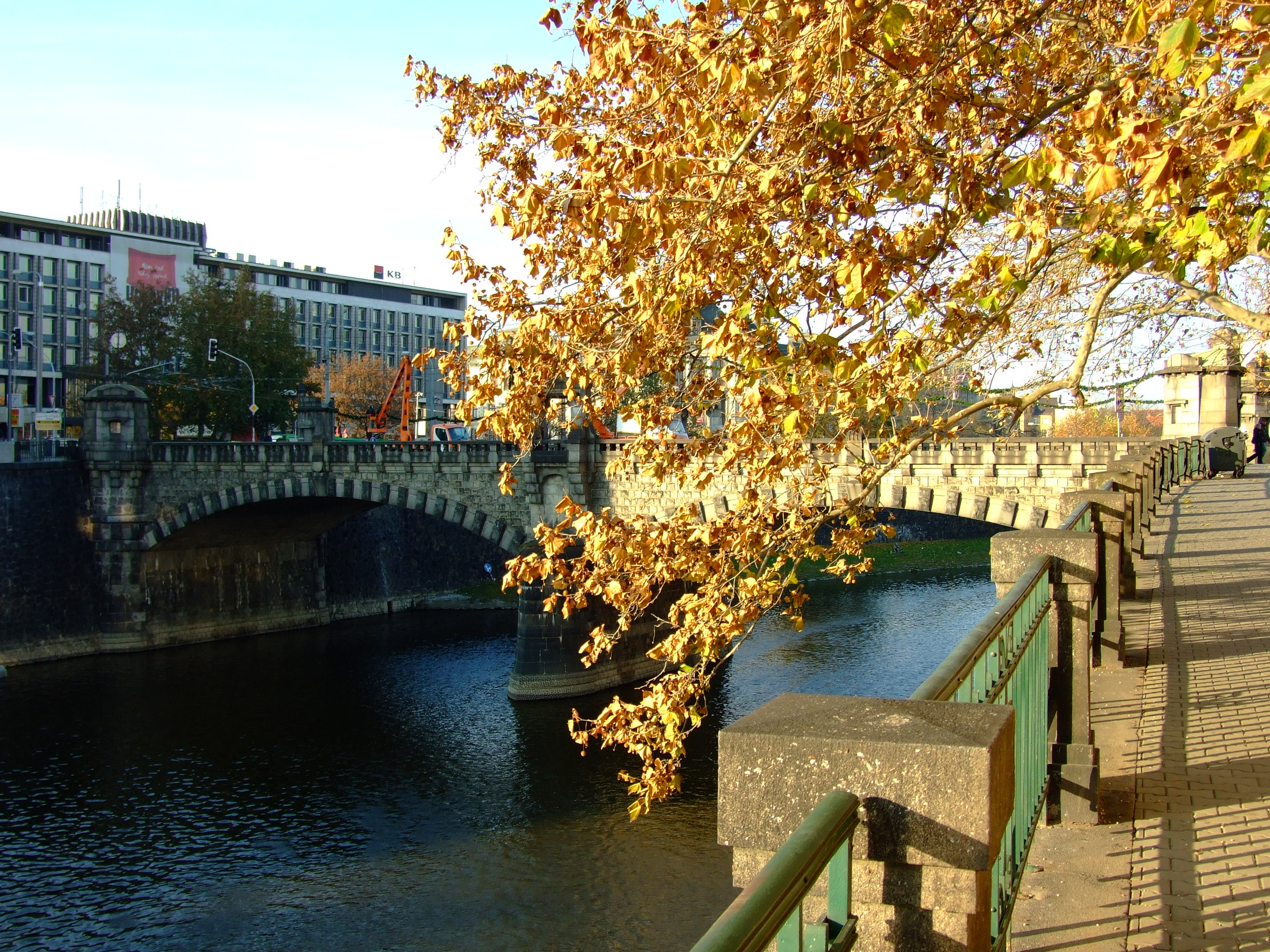 Pilsen, CZhelp